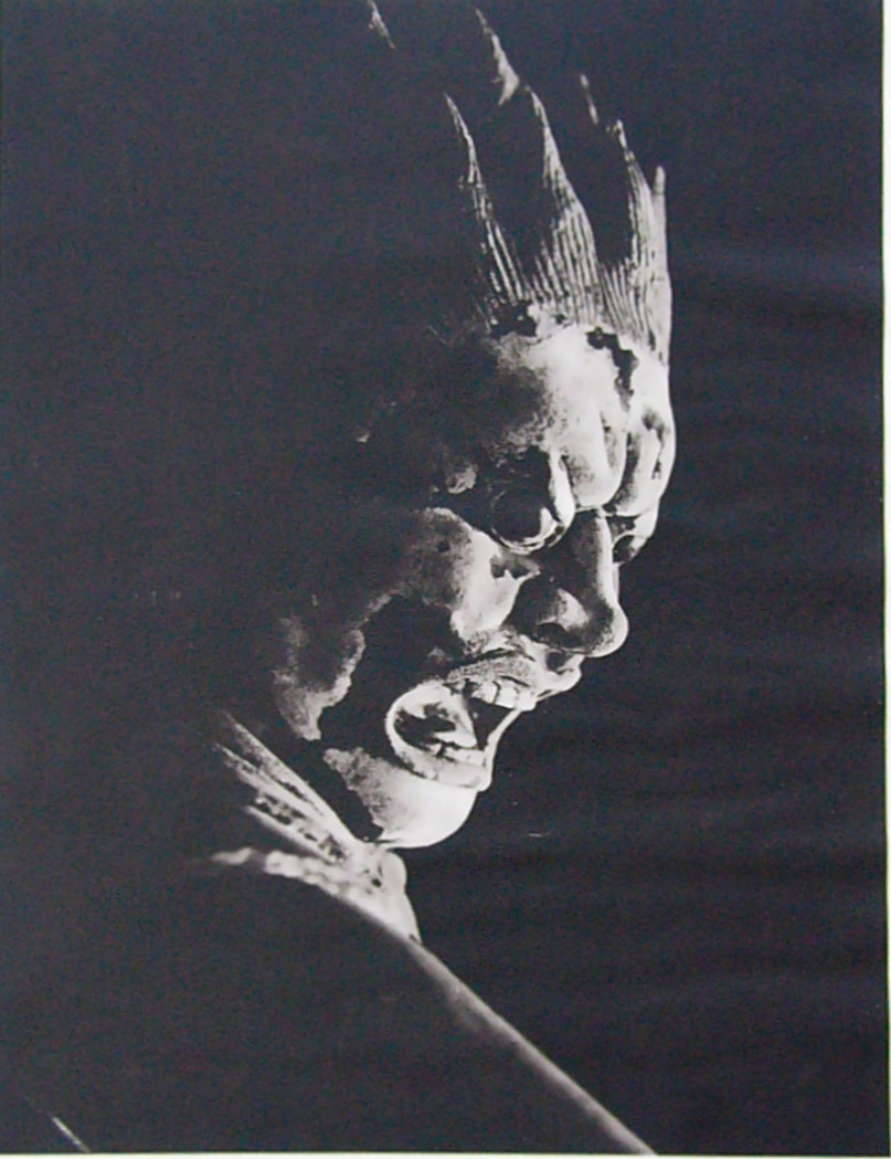 Face of the statue of Bazara, one of the Tweleve Heavenly Guardians. Clay, total height 163 cm, 8th century, Nata Period, Shin-Yakushi-ji, Nara, Japan